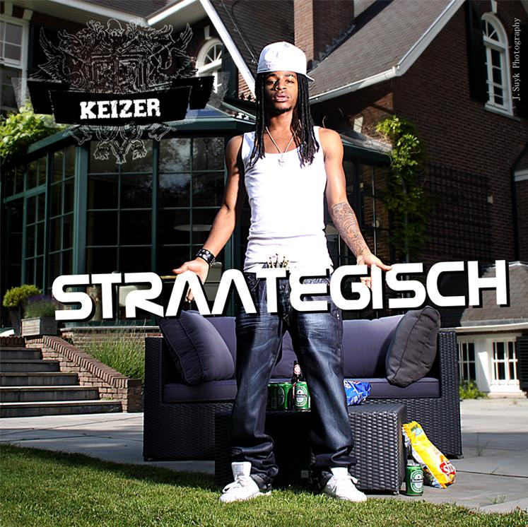 Cover